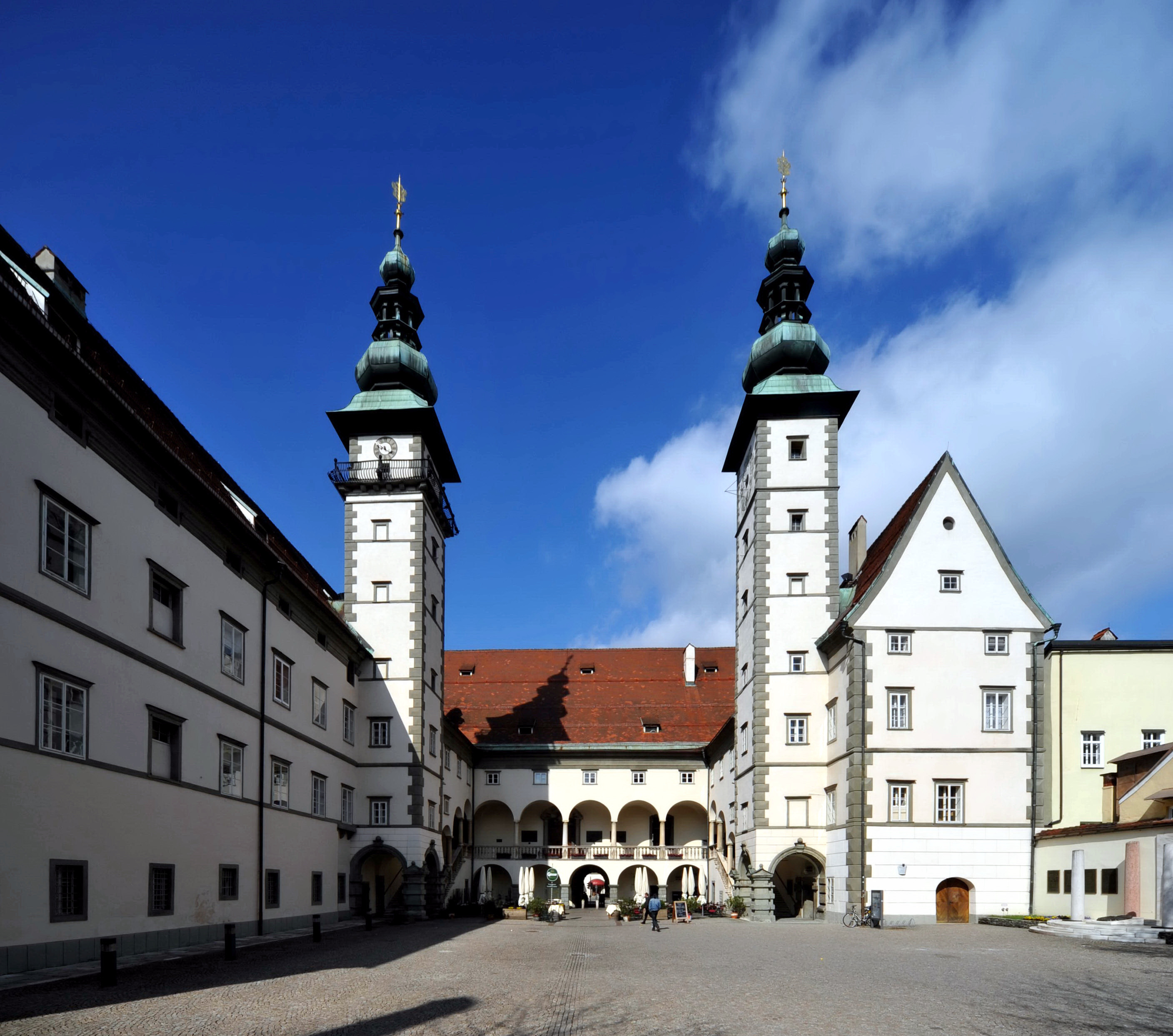 View of the Landhaus on Landhaushof #1, inner city of Klagenfurt, Carinthia, Austria, EU